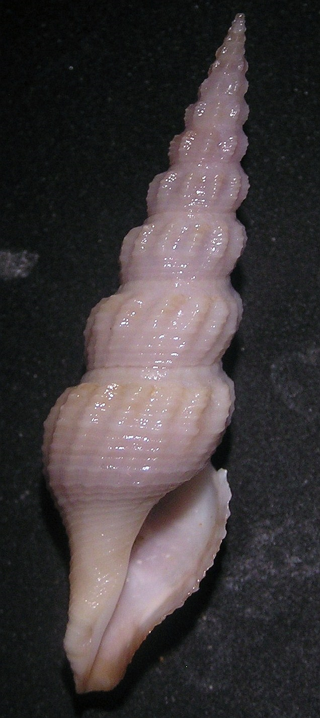 Inquisitor aesopus (Schepman, 1913) , a turrid snail in the family Turridae; Philippines